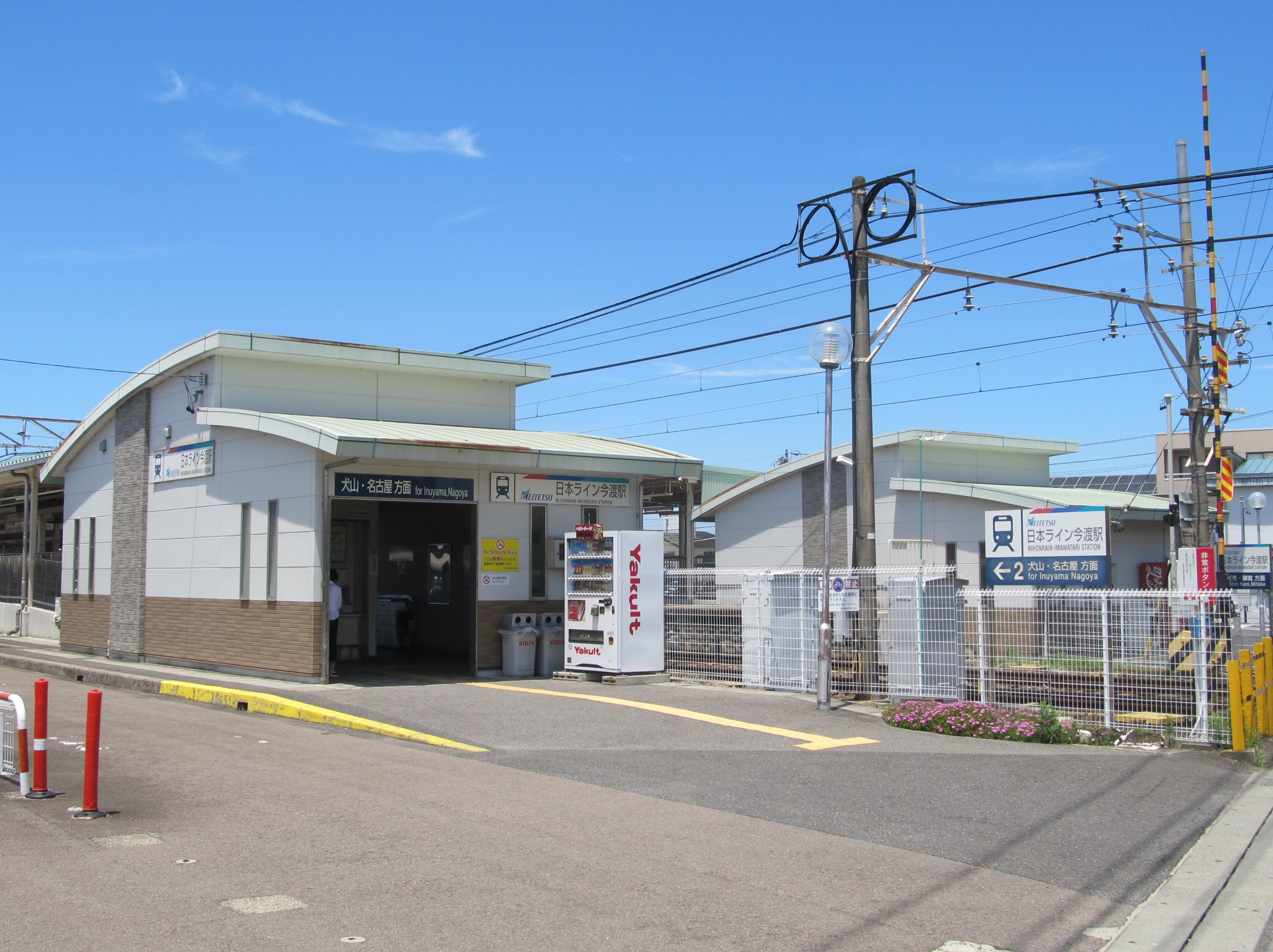 Nagoya Railroad Hiromi Line Nihonrain-imawatari Station Building